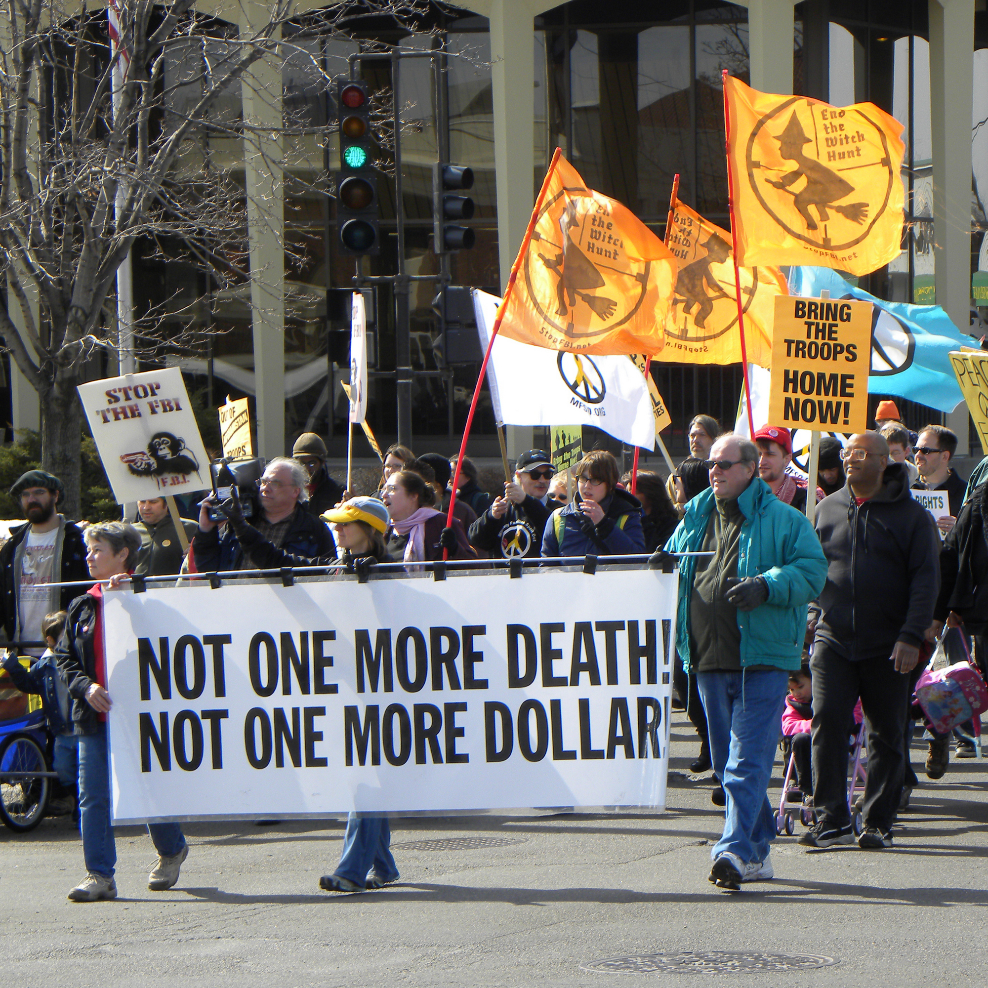 St. Paul, Minnesota March 19, 2011 Protesters marched through St. Paul, down University Avenue and ended with a rally on the steps of the capitol building. Signs read: NOT ONE MORE DEATH! NOT ONE MORE DOLLAR! BRING THE TROOPS HOME NOW! STOP THE FBI 2011-03-19 This is licensed under a Creative Commons Attribution License.